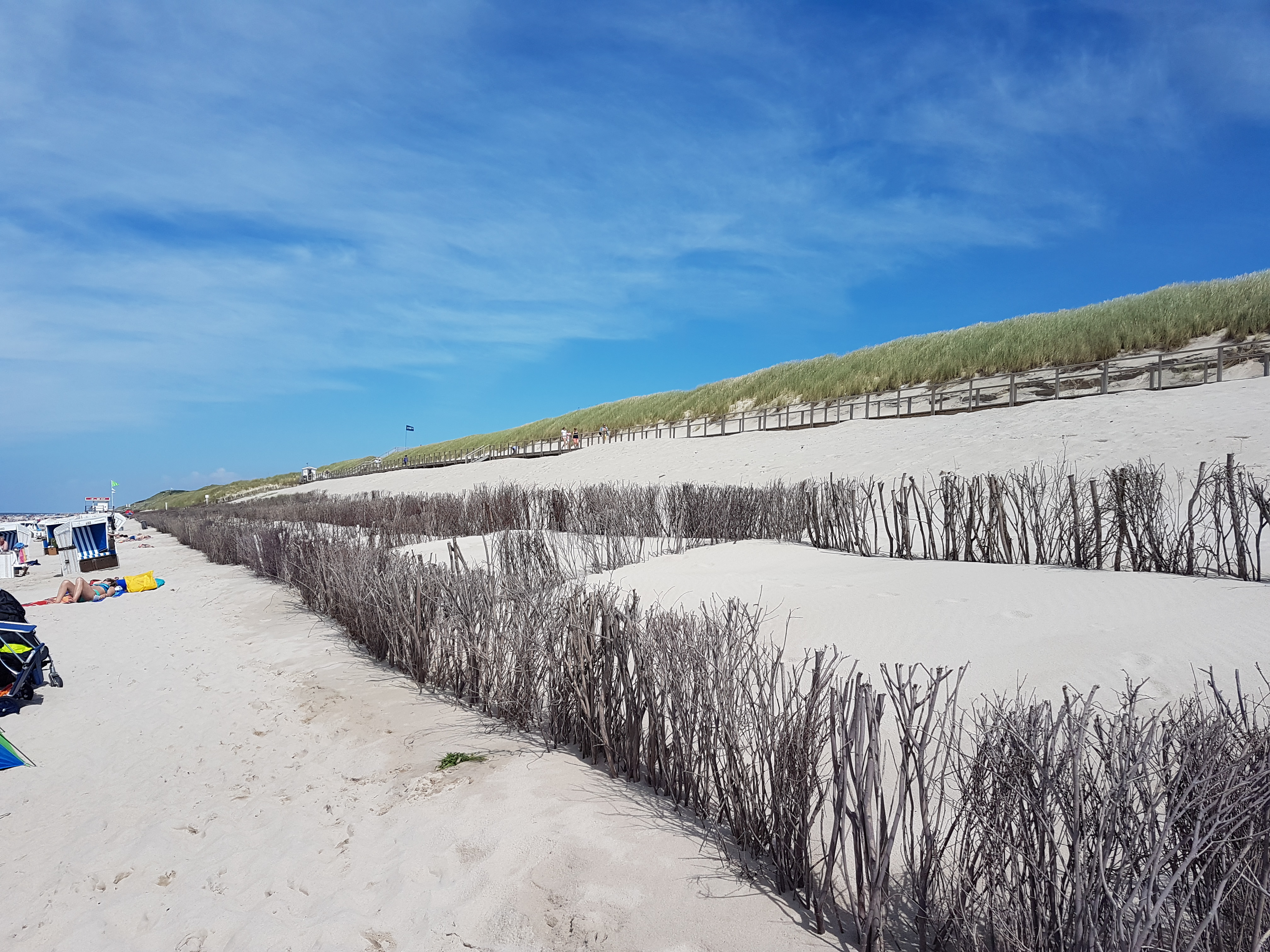 Fascines